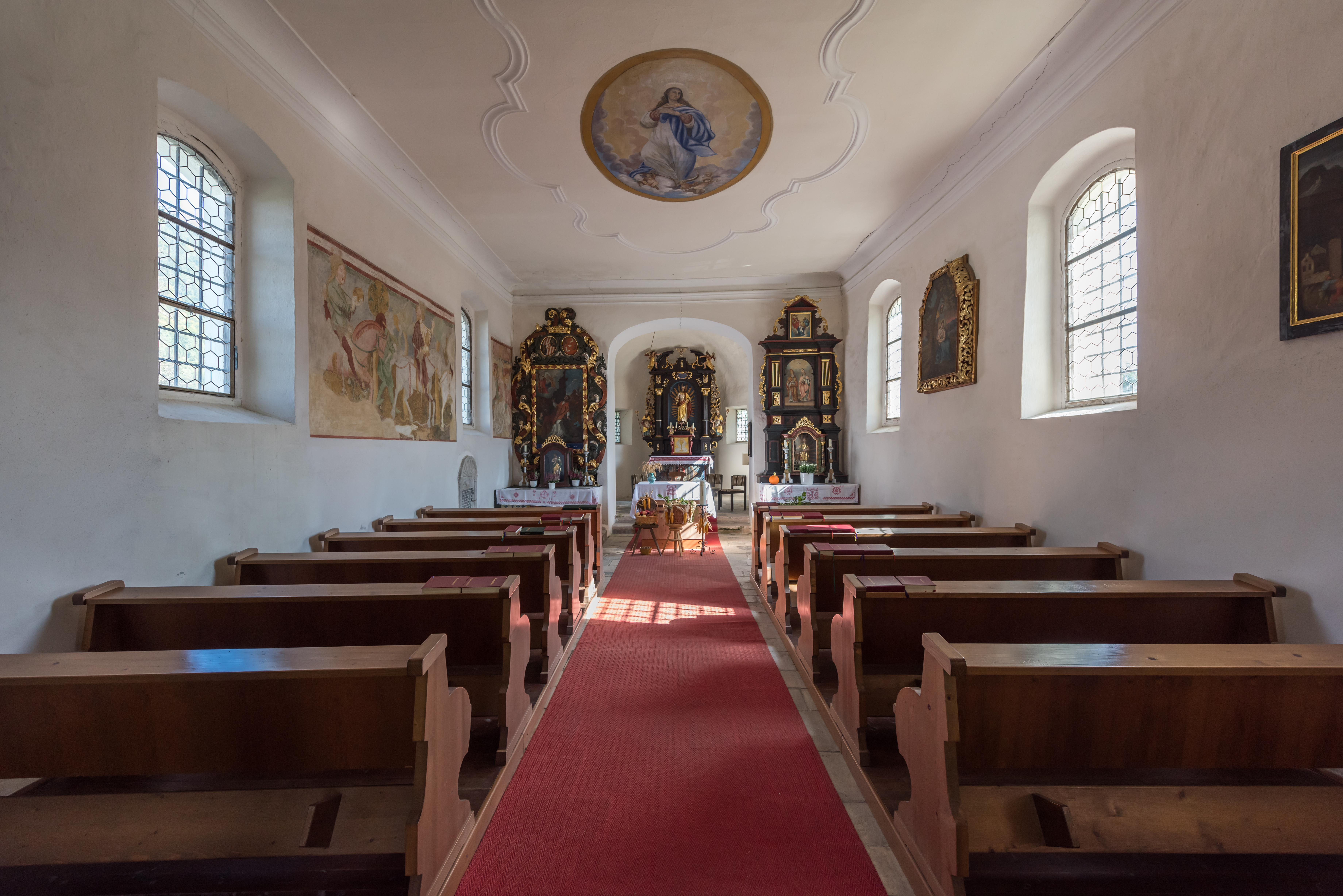 Nave of the subsidiary church (13th century) at Saint Peter on the Bichl, 14th district Woelfnitz, municipality Klagenfurt am Wörthersee, Carinthia, Austria, EU